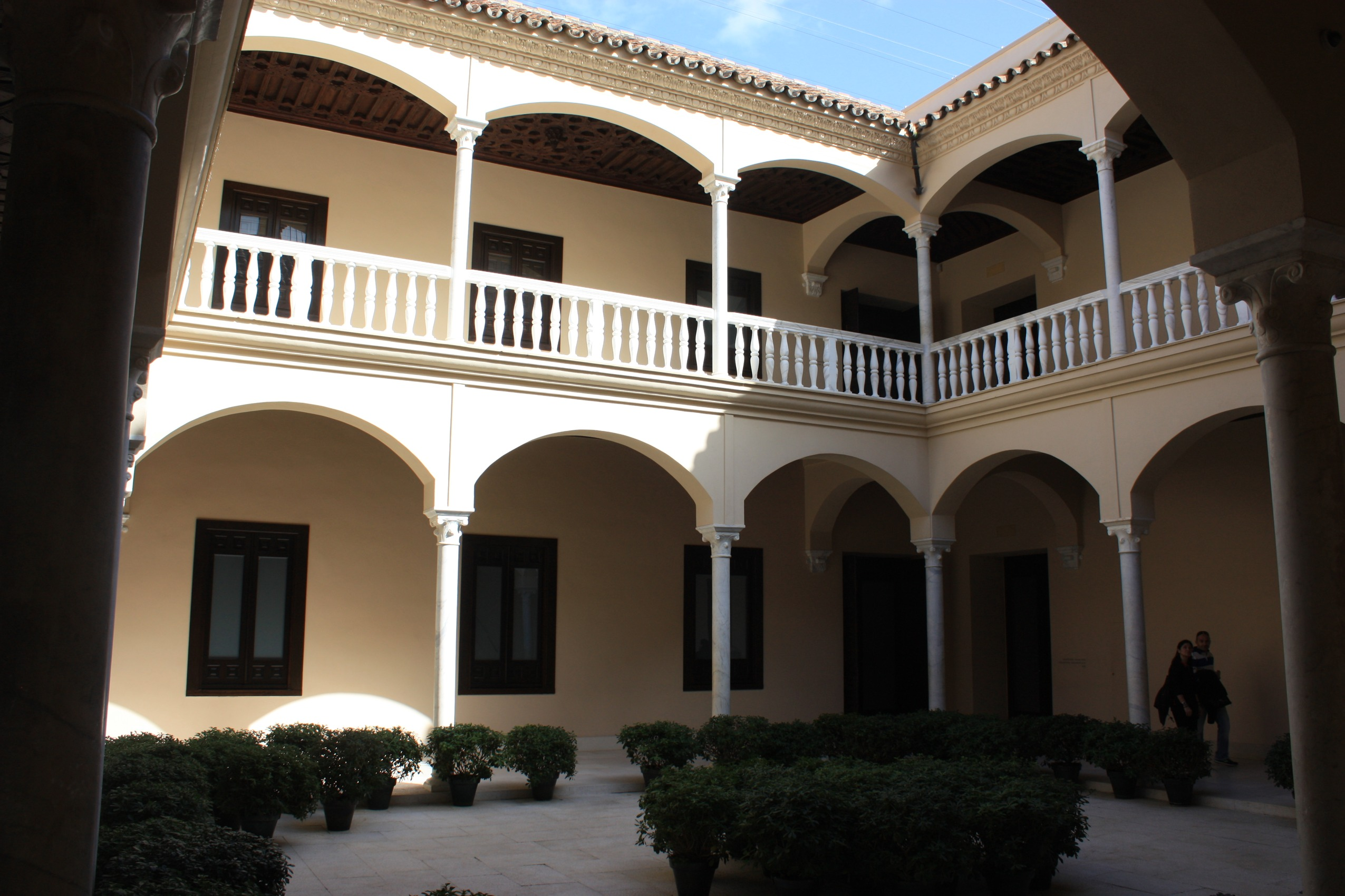 Málaga, the yard of the Picasso Museum